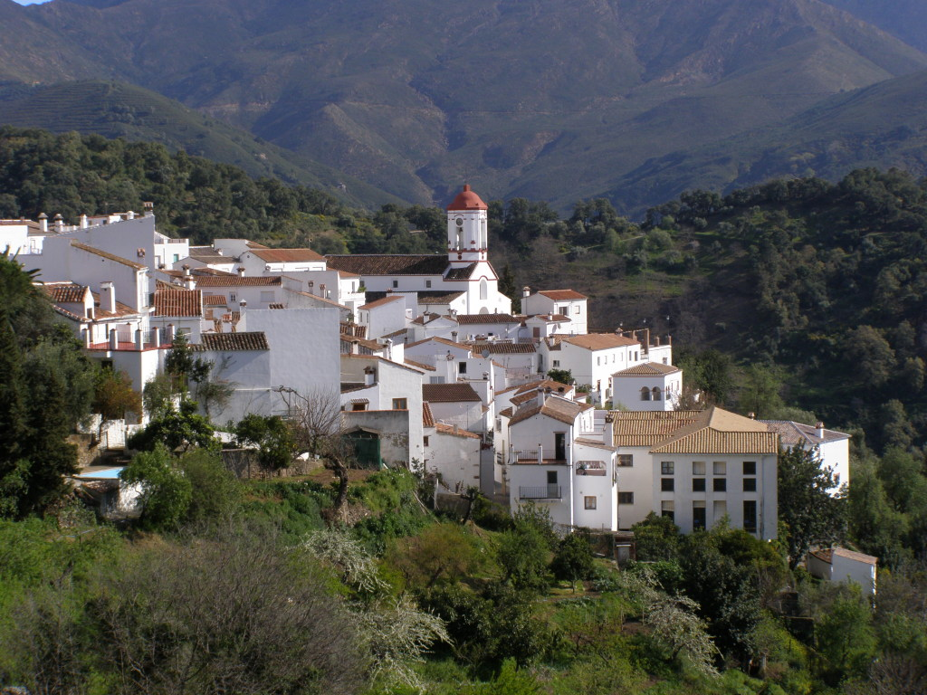 View of Genalguacil, province of Málaga, Spain